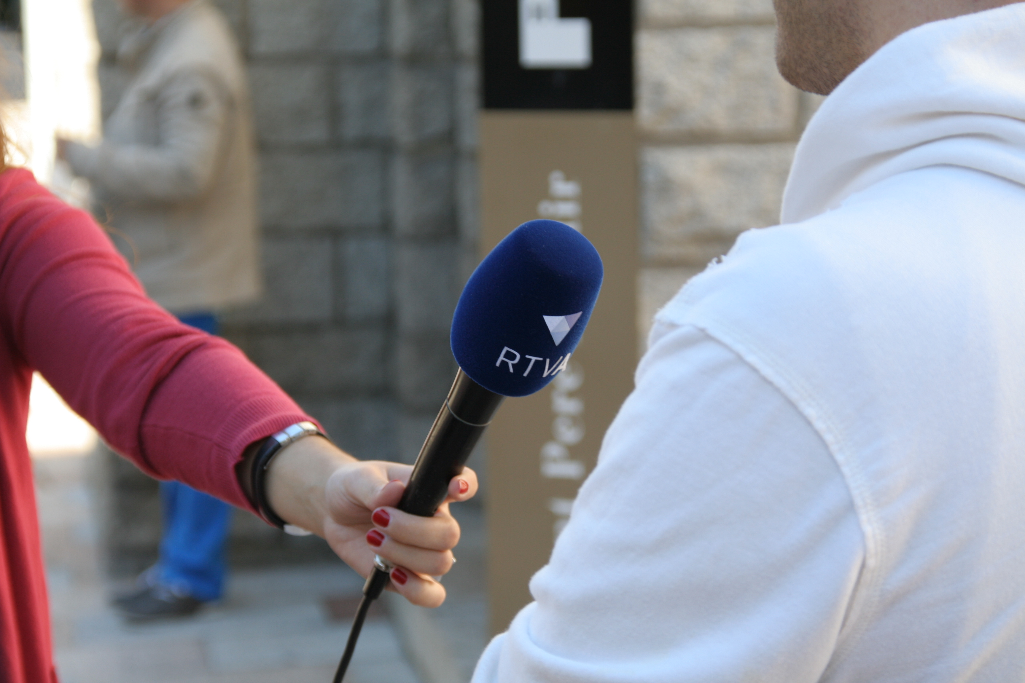 Catalan Wikimedians during Andorra photowalk for Wiki Loves Monuments 2013